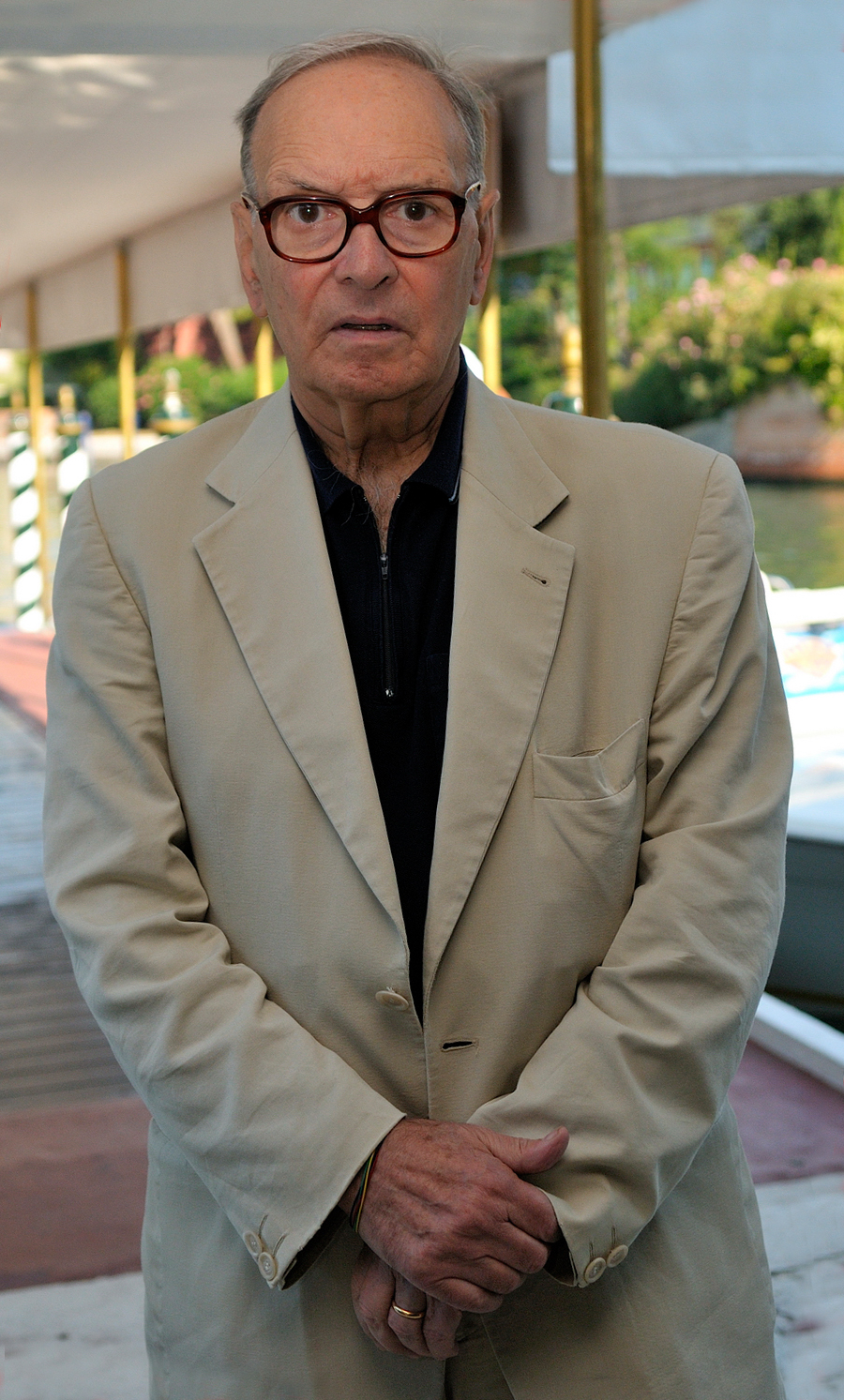 Ennio Morricone at the 66th Venice Film Festival, September 2009.